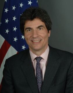 Jose W. Fernandez